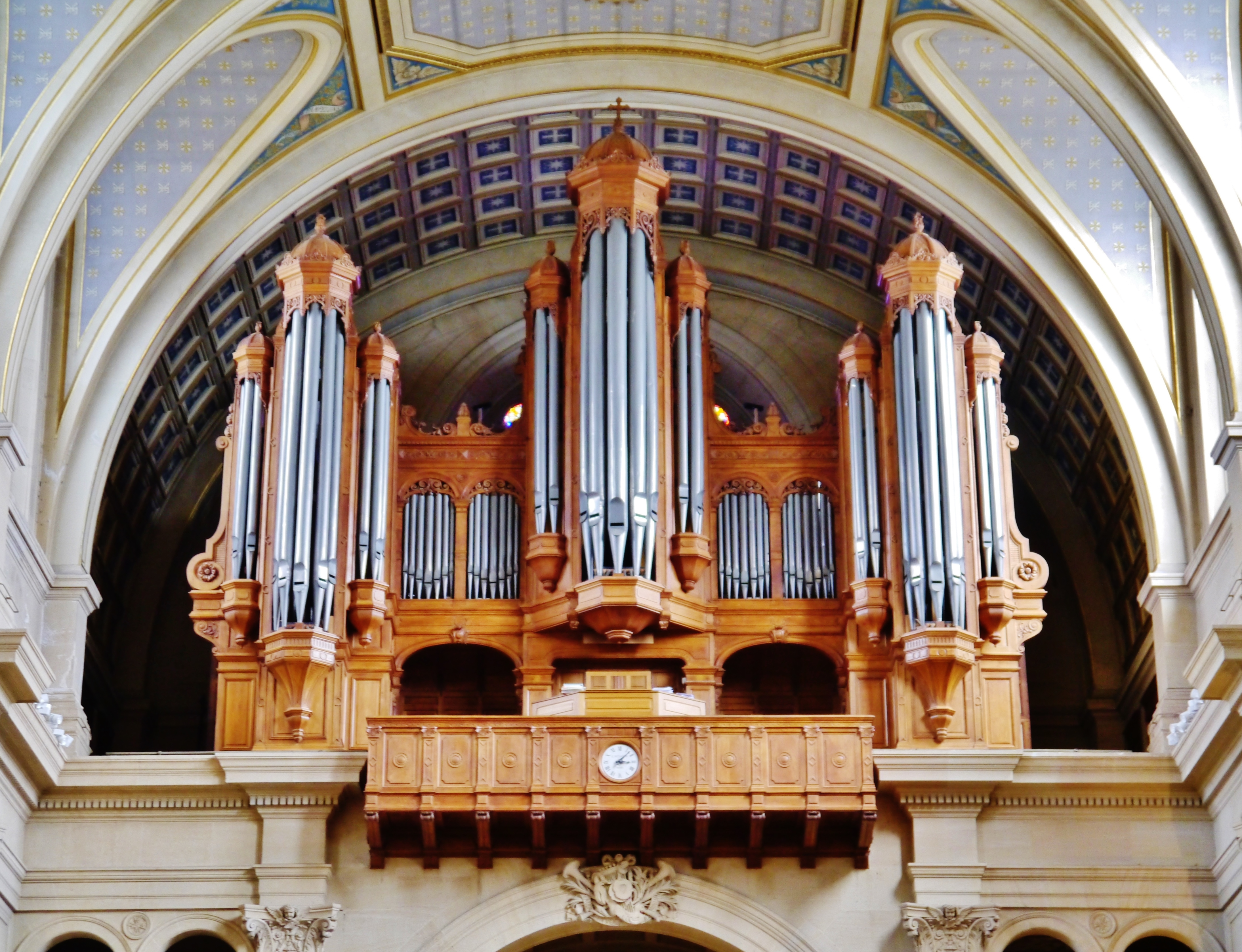 Organ of the Church St. Francis Xavier of the Foreign Missions, Paris, Region of Île-de-France, France